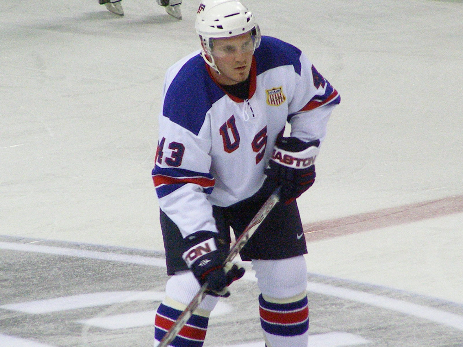 United States defenseman James Wisniewski plays against Latvia during the 2008 IIHF World Championship